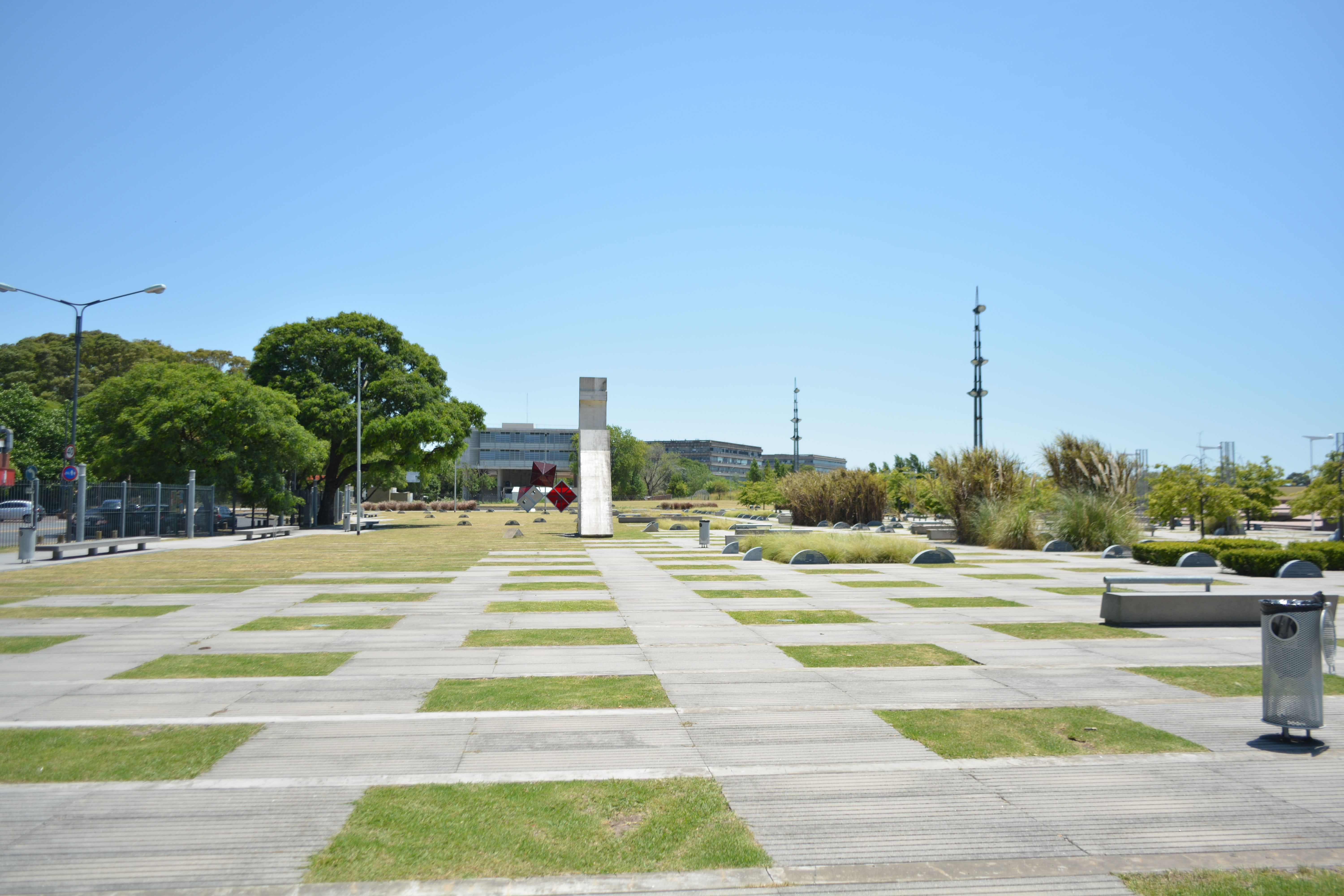 The Remembrance park (Spanish: Parque de la memoria) is a public space situated in front of the Río de la Plata estuary in the northern end of the Belgrano section of Buenos Aires.